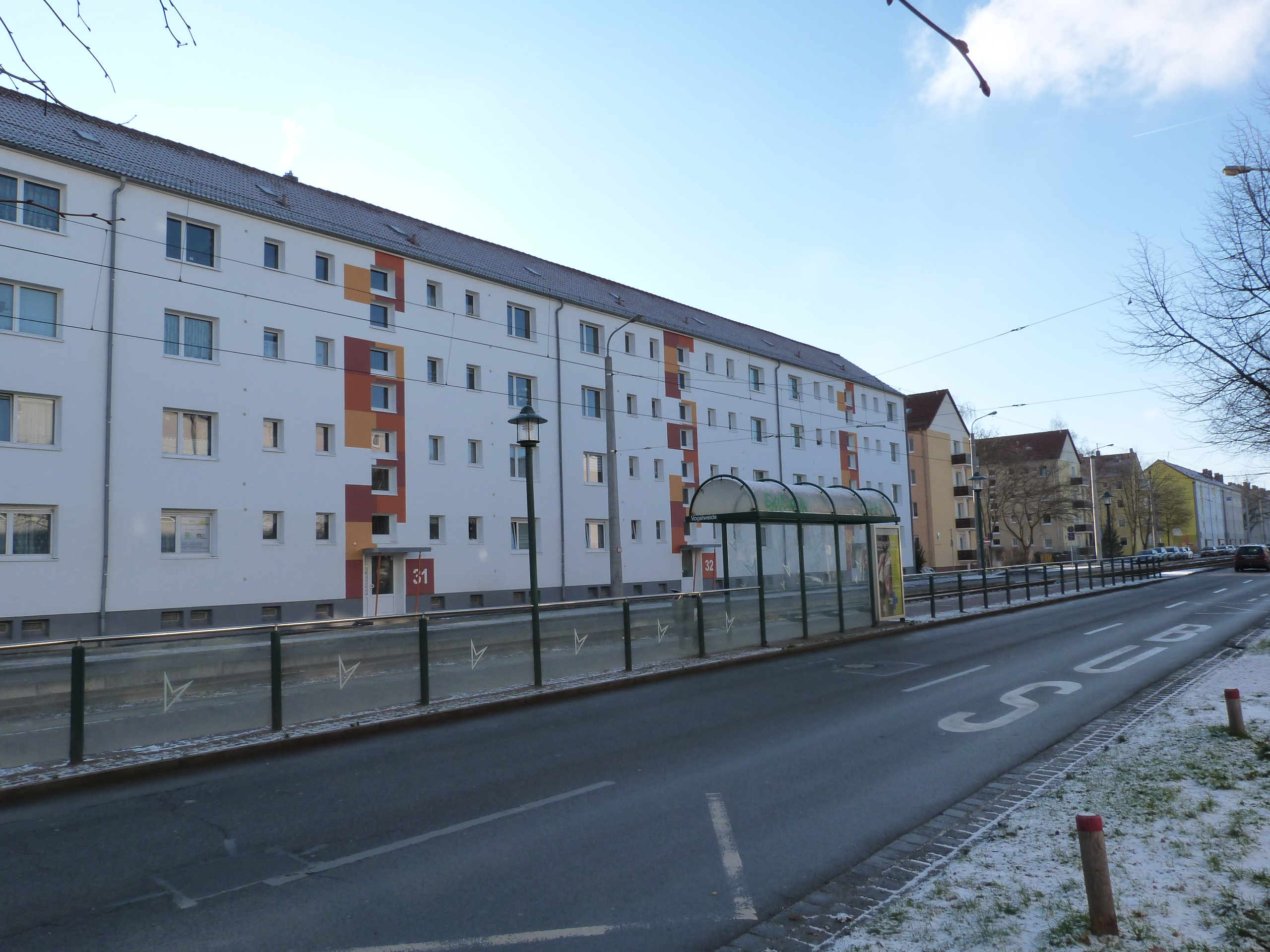 Street "Vogelweide", view to west, buildings in the late 1950s, Halle (Saale)